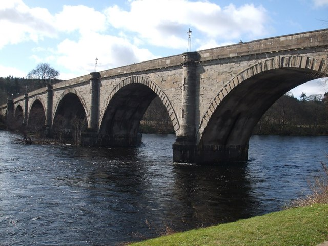 Dunkeld Bridge This elegant seven spanned bridge across the Tay was designed by Thomas Telford and opened in 1809. It is 685 feet in length, 26 1/2 feet wide and 90 feet high at the centre. Since the Duke of Atholl met part of the cost and was losing ferry dues, tolls were levied on his behalf. This was highly unpopular and over the years many riots took place. Toll gates were thrown into the river. Indeed in 1868 troops were sent to maintain order. An added annoyance was with the coming of the railway it was necessary to cross the bridge to get to the station. Eventually tolls were removed in May 1879. An added point of interest is that the landward arch was utilised as the local jail.